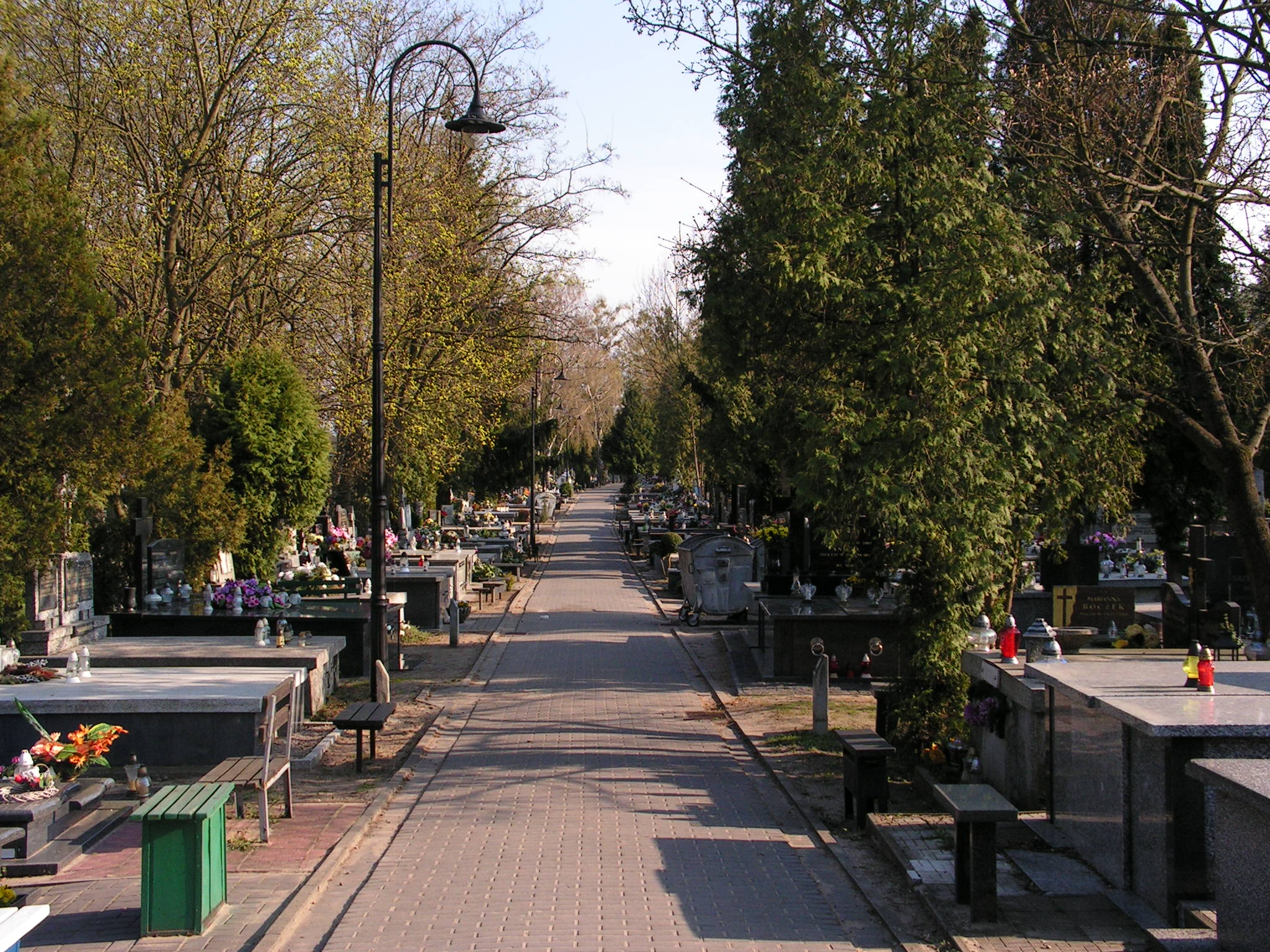 Path in Communal Cemetery in Włocławek.